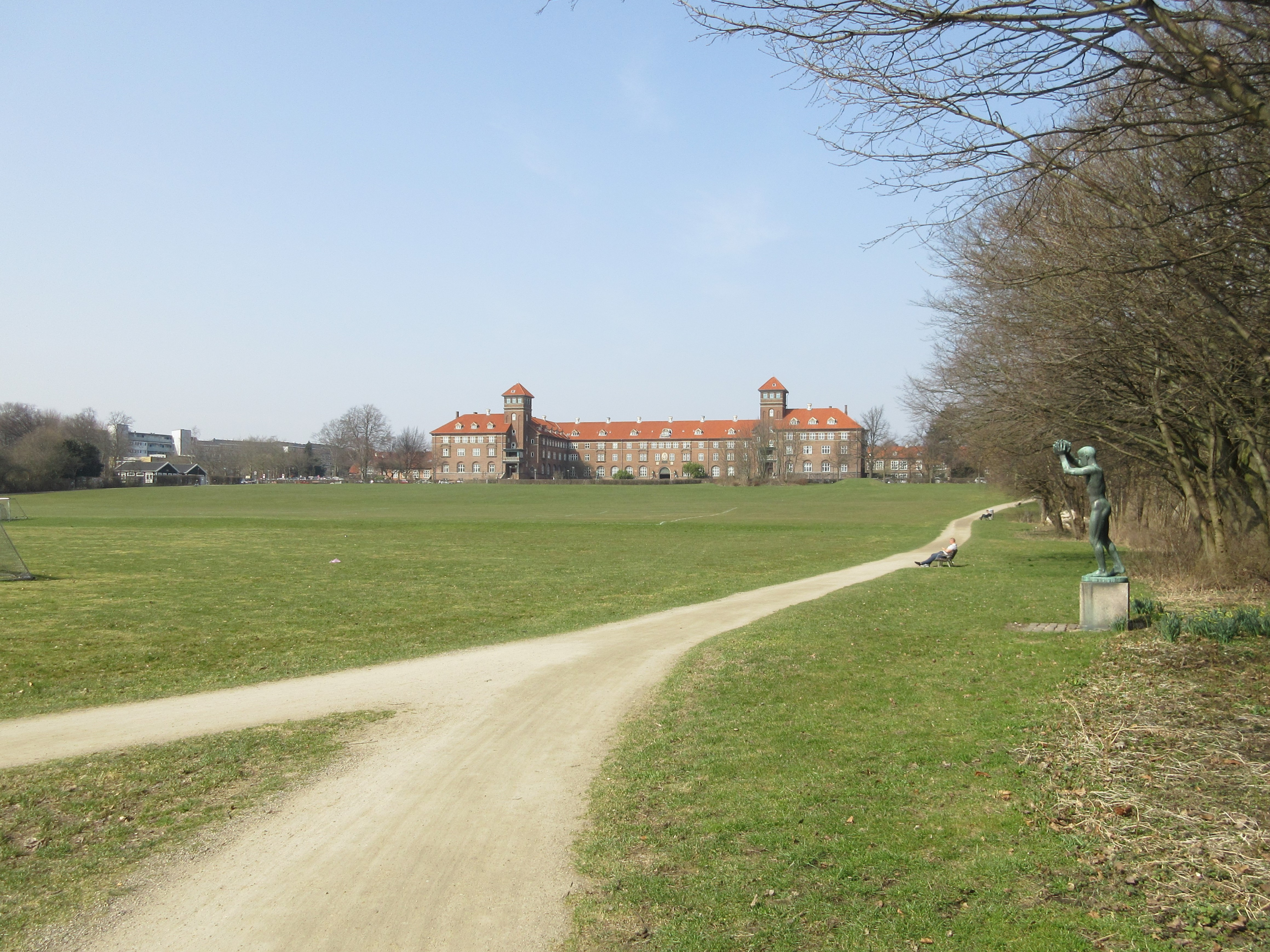 Lersøparken in Cpenhagen, Denmark